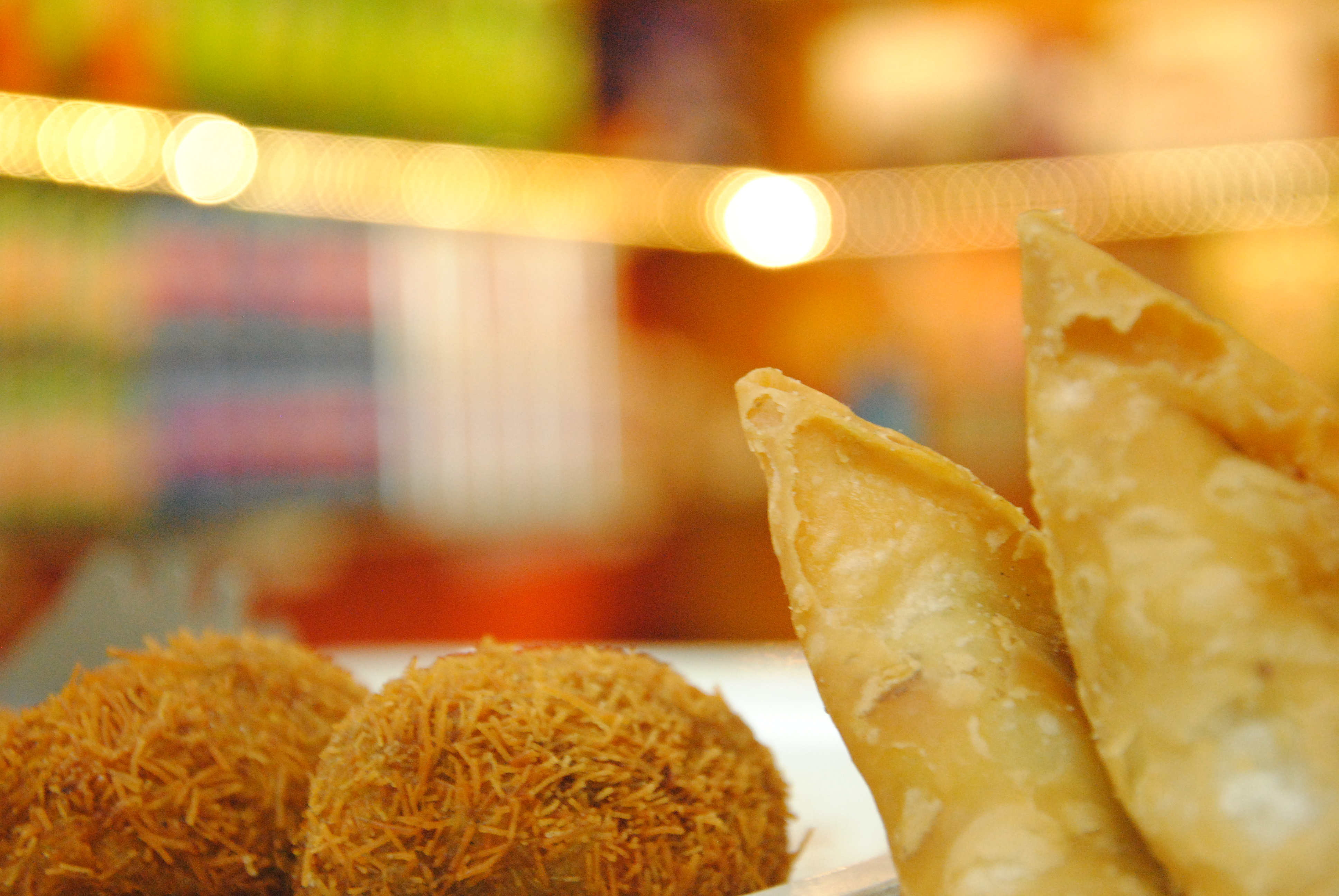 Most Indians love these snacks!